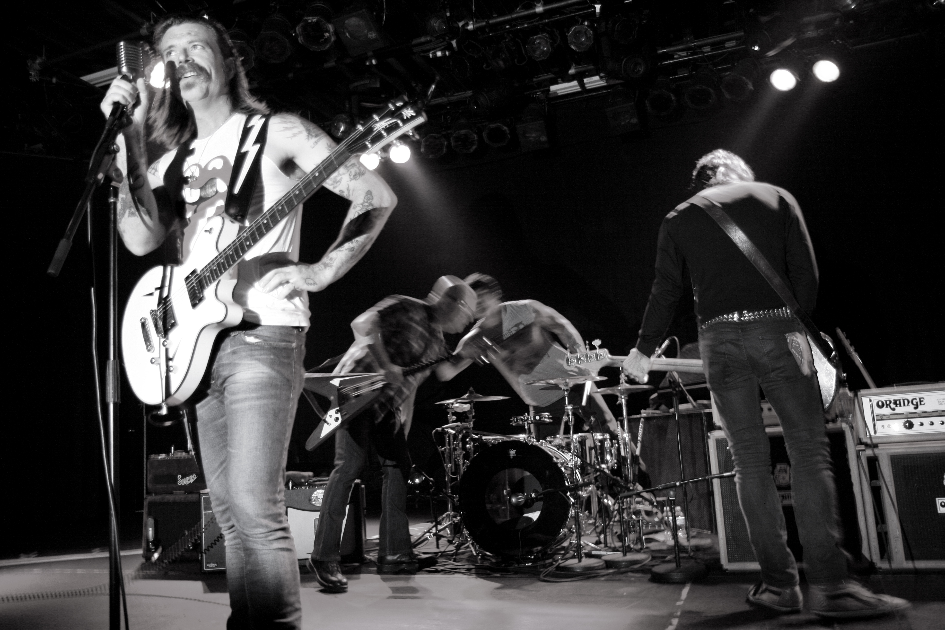 Eagles of Death Metal on stage at the Commodore Ballroom July 20th 2009